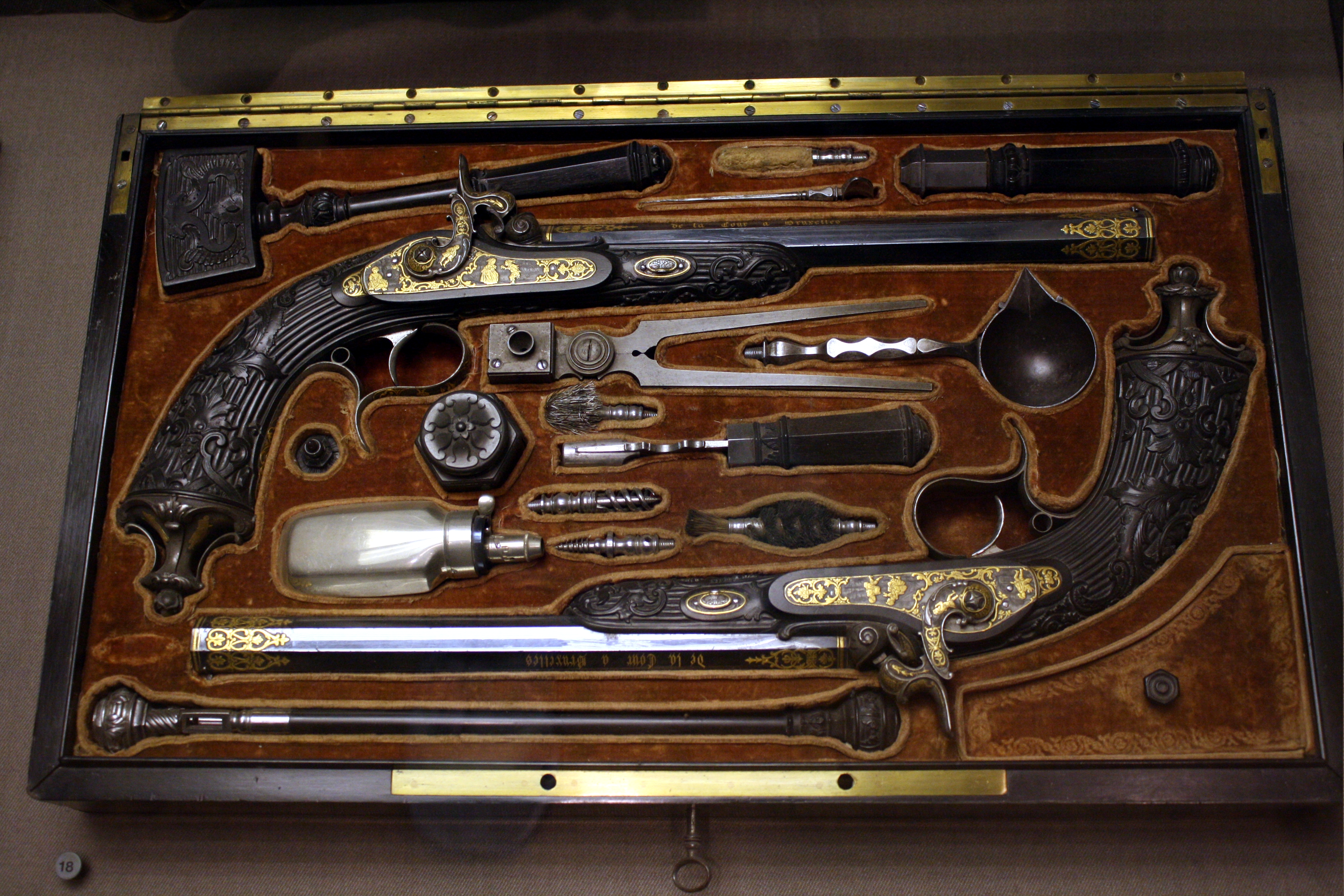 A matched pair of engraved and gilded muzzle loading percussion lock dueling pistols. Located in the Philadelphia Museum of Art.